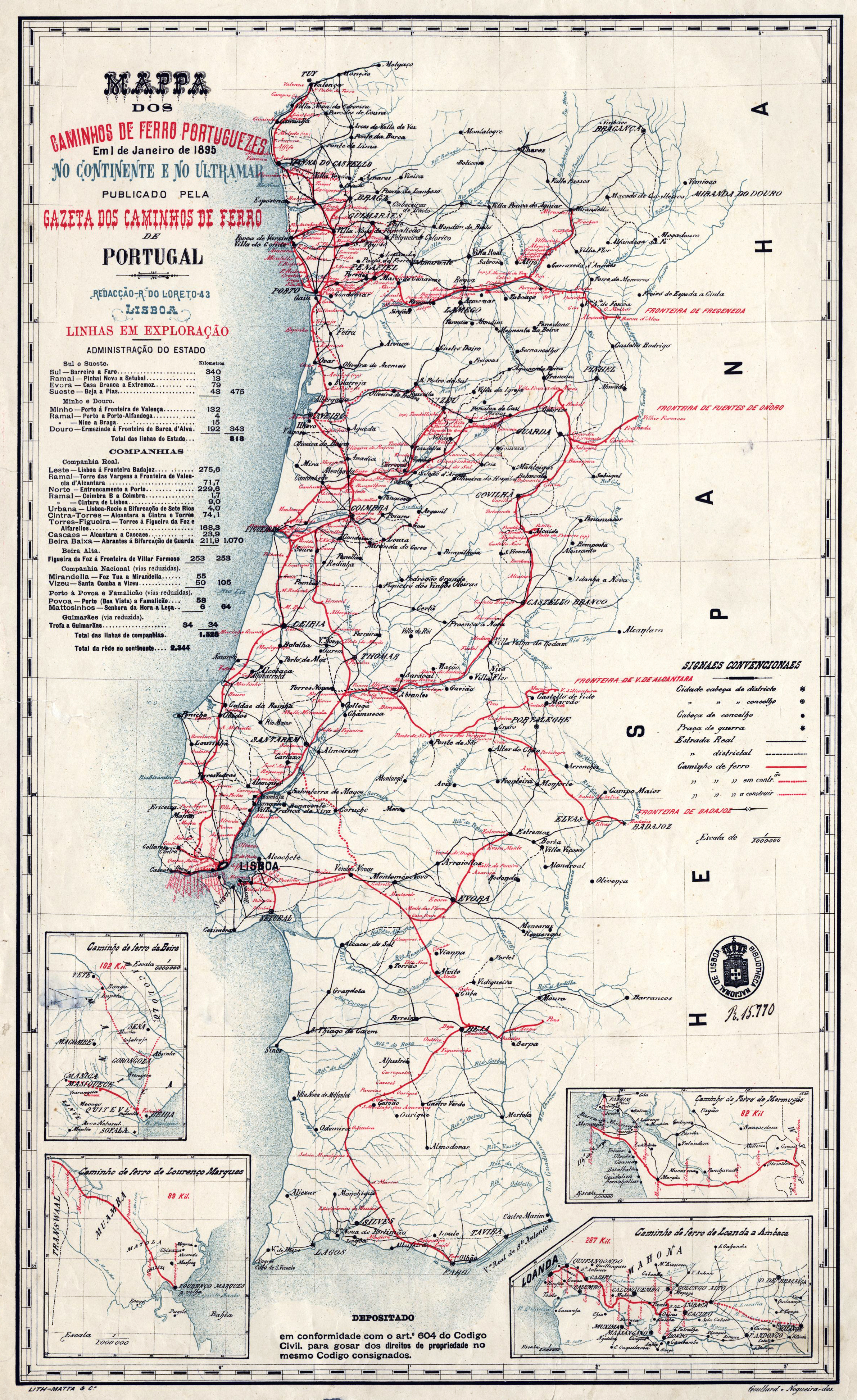 Portuguese railroad network in 1895